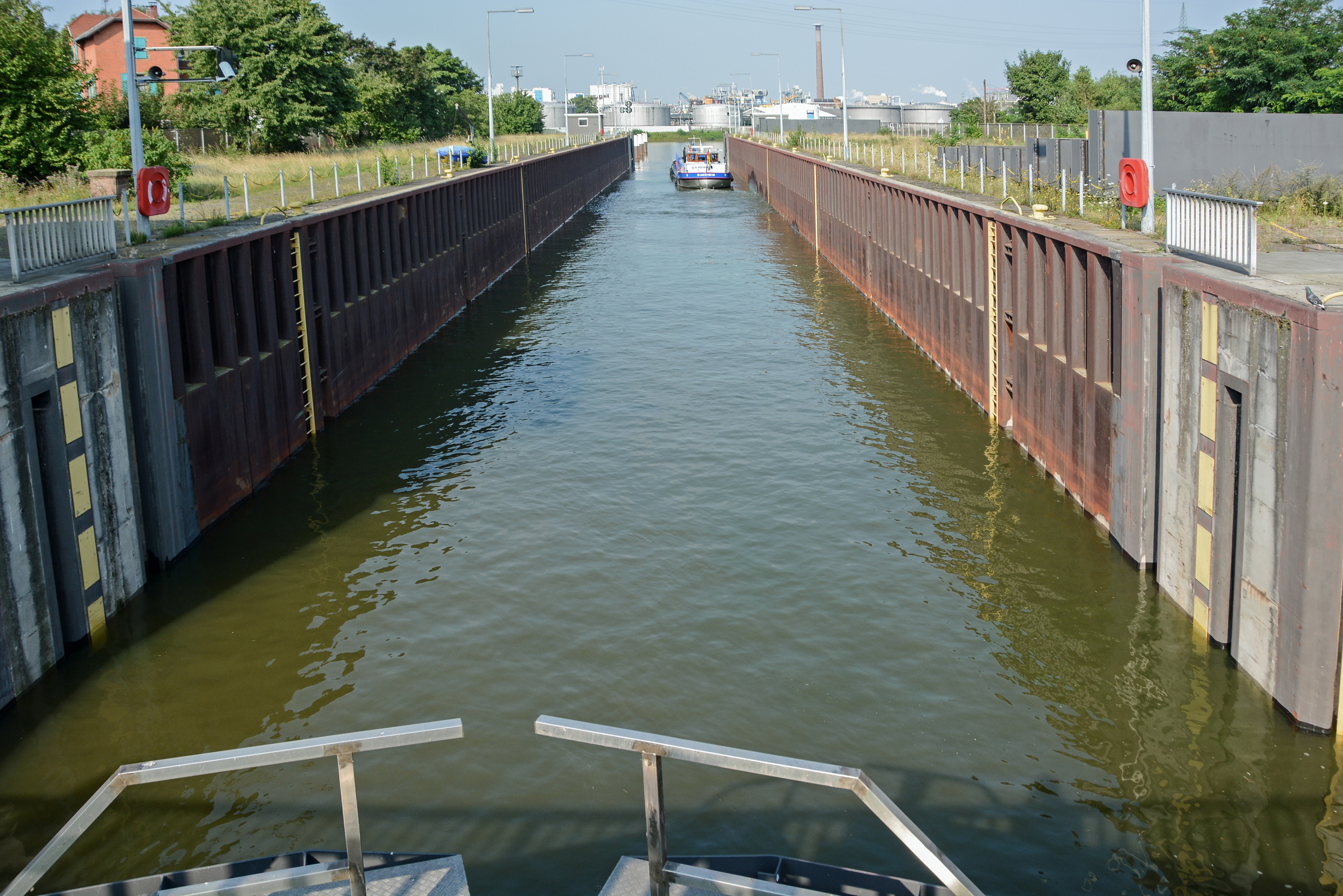 Mannheim, Germany, industry harbor (harbor 4), ship leaving industry harbor through Kammerschleuse (lock) to river Neckar